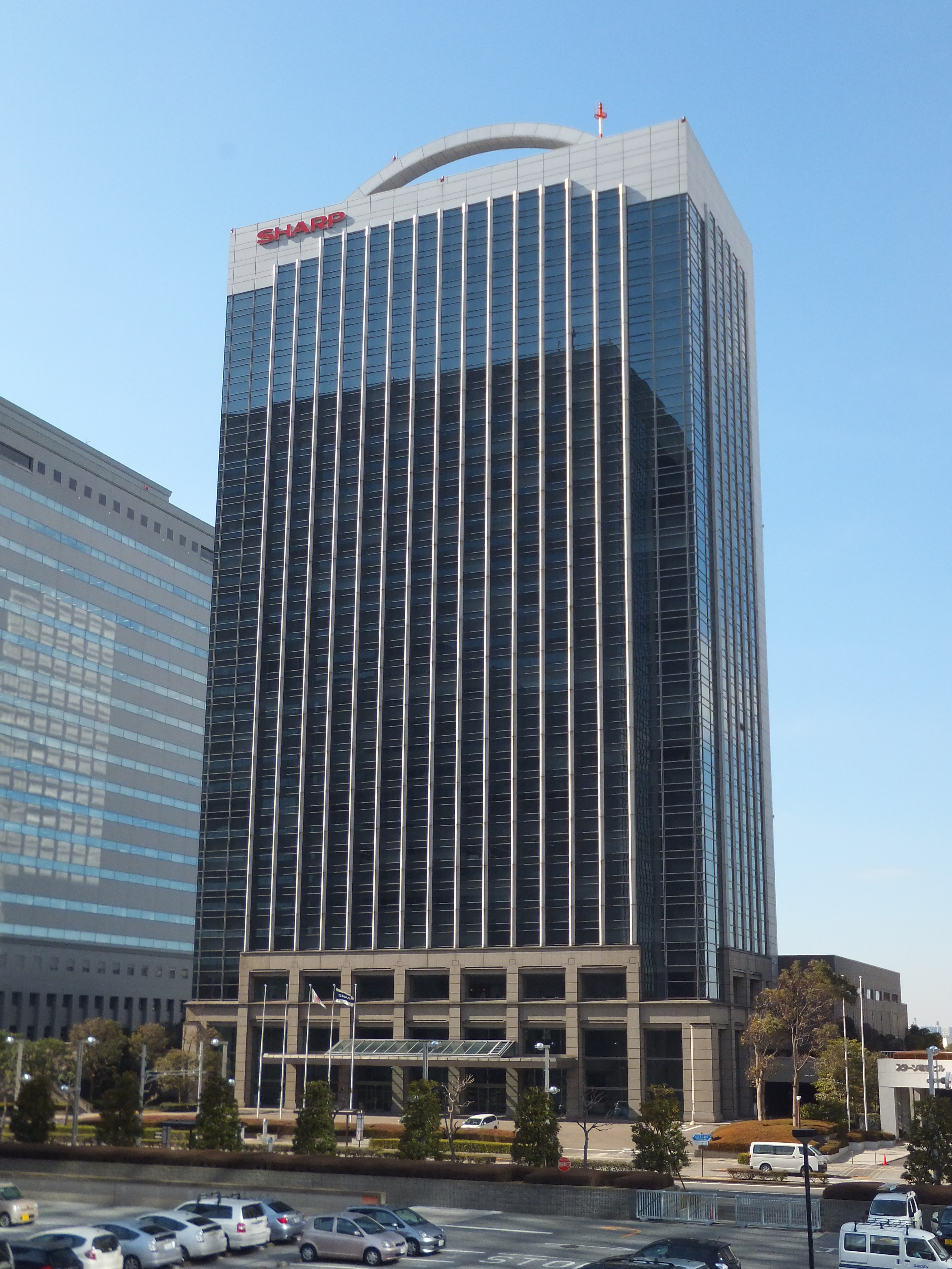 Sharp Makuhari Building in Chiba, Japan